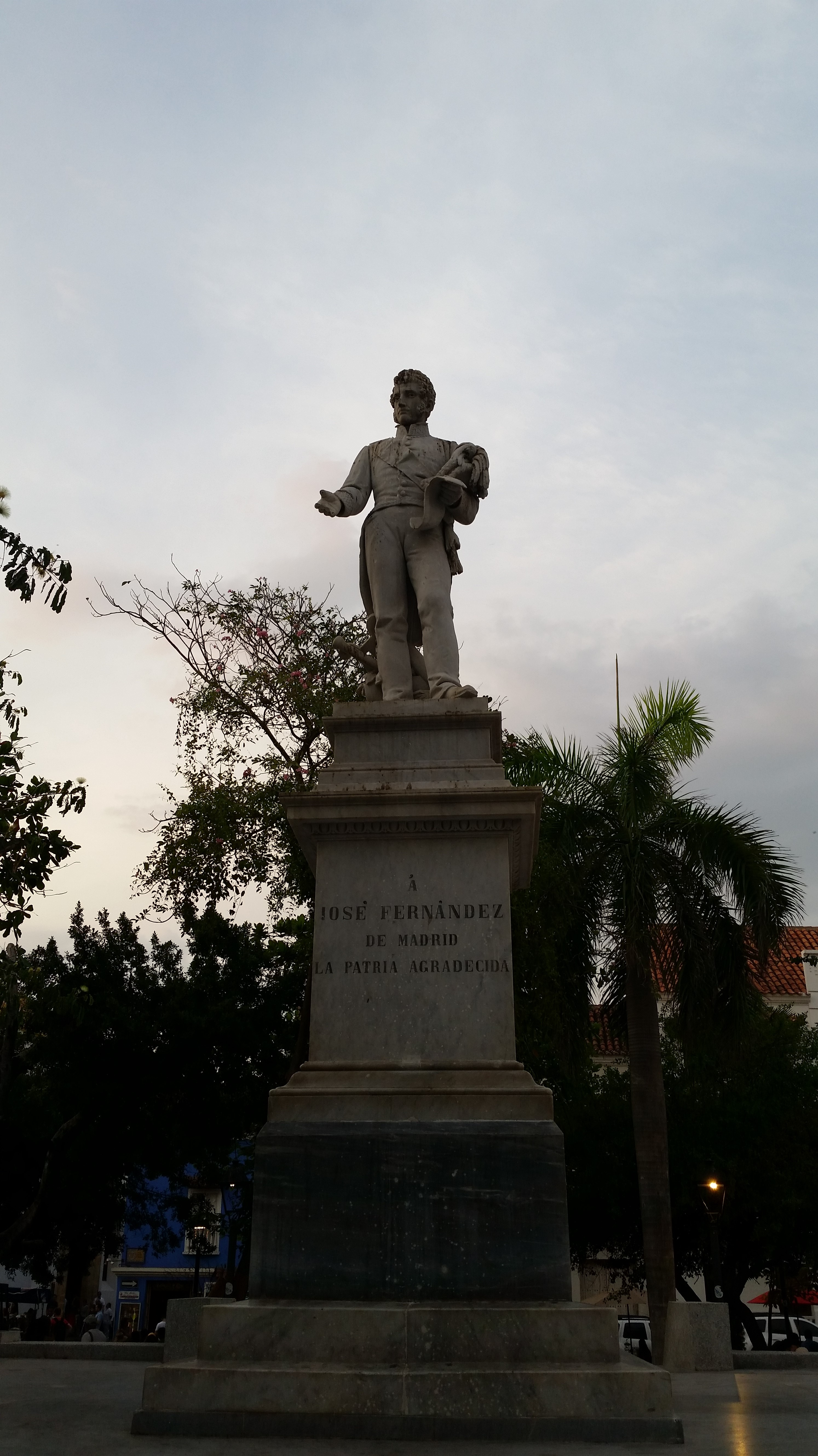 Plaza Fernandez Madrid, Cartagena, Colombia